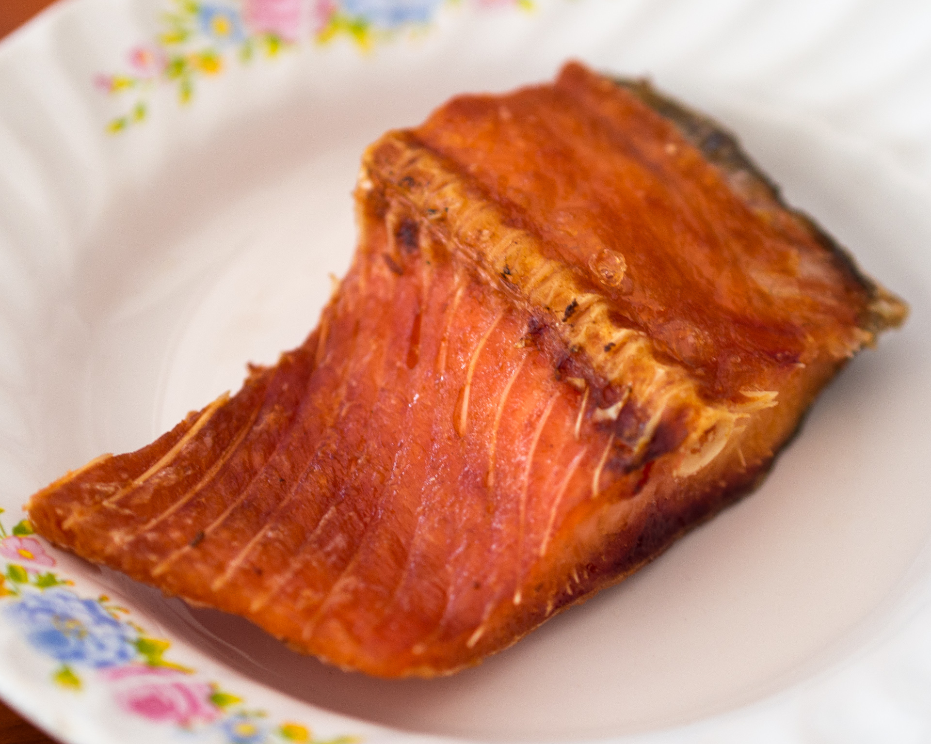 Pla buang (Thai script: ปลาบ้วง), a speciality of northern Thailand, is sun-dried and salted Giant Snakehead fish (pla chado) that is, as seen here, often served deep-fried. The drying and salting process takes 3 days, making the fish very sweet and changing the colour of the fish meat to a deep orange. It is somewhat similar to pla chado daet diao from central Thailand but there the fish is only dried for 1 day, making the taste less intense.